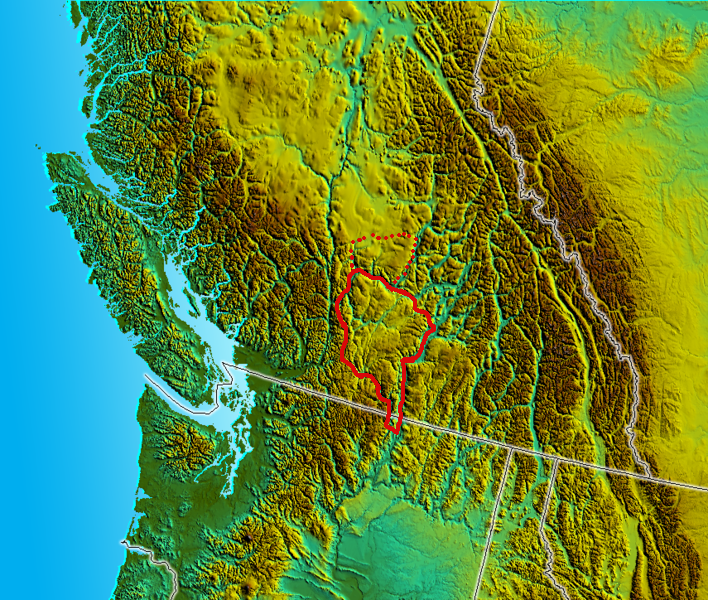 adapted from img in Wikimedia Commons :Image:708px-South_BC-NW_USA-relief_ThompsonPlateau.png